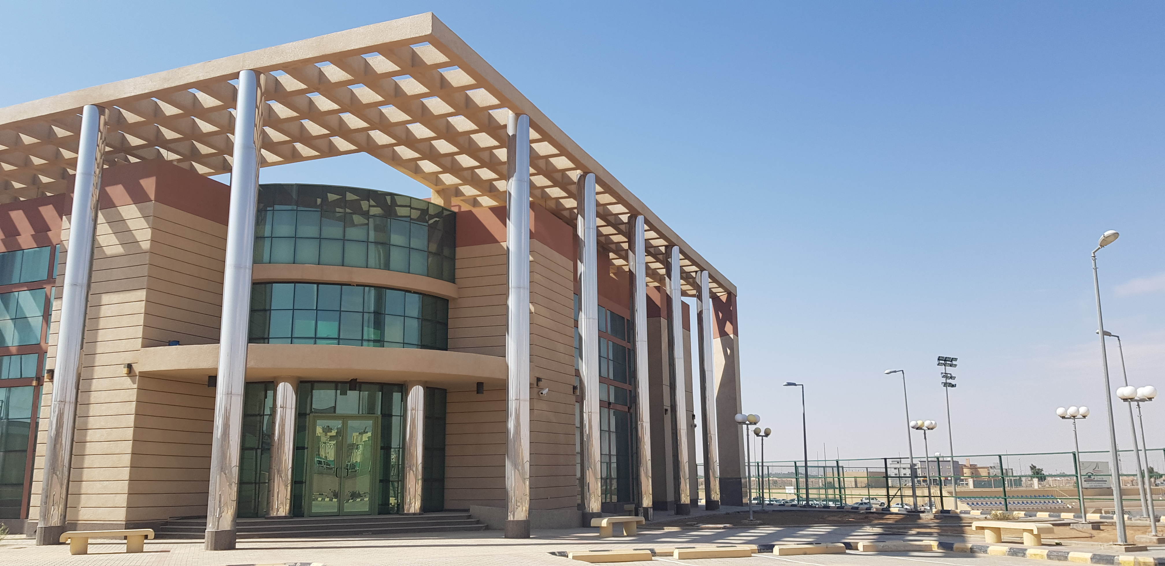 مبنى التدرب الالكتروني